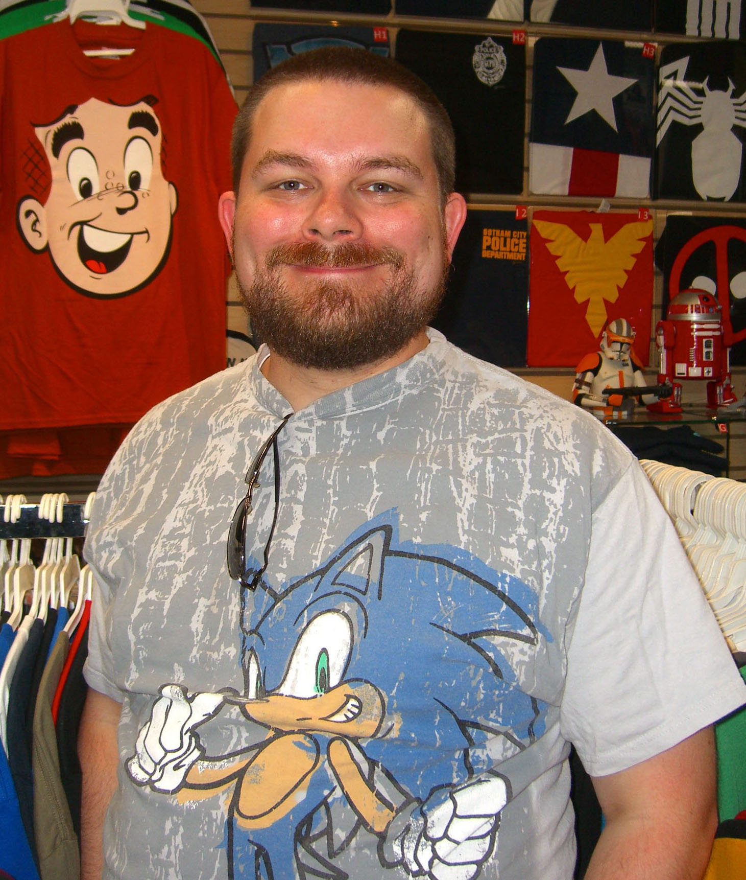 Comic book writer Ian Flynn at a September 8, 2012 signing for Red Circle Comics' New Crusaders: Rise of the Heroes #1 at Midtown Comics in Manhattan. This photo was created by Luigi Novi. It is not in the public domain, and use of this file outside of the licensing terms is a copyright violation.